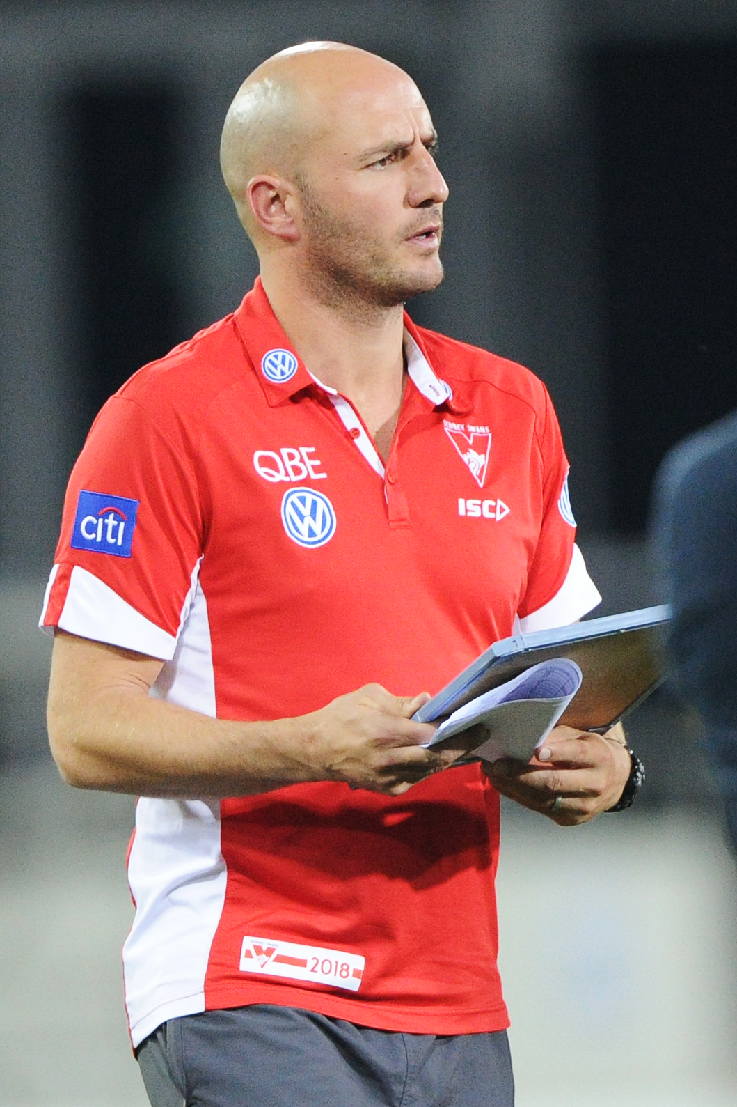 Tadhg Kennelly of Sydney during the 2018 NEAFL round 15 match between NT Thunder and Sydney at TIO Stadium on Saturday, 14 July 2018 in Darwin, Northern Territory.